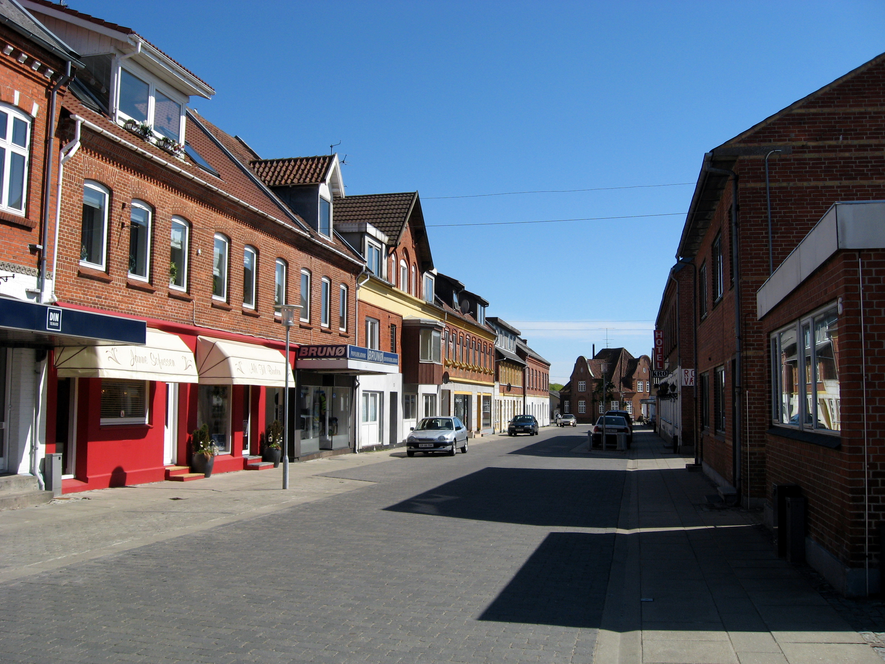 The Danish town of Dybvad